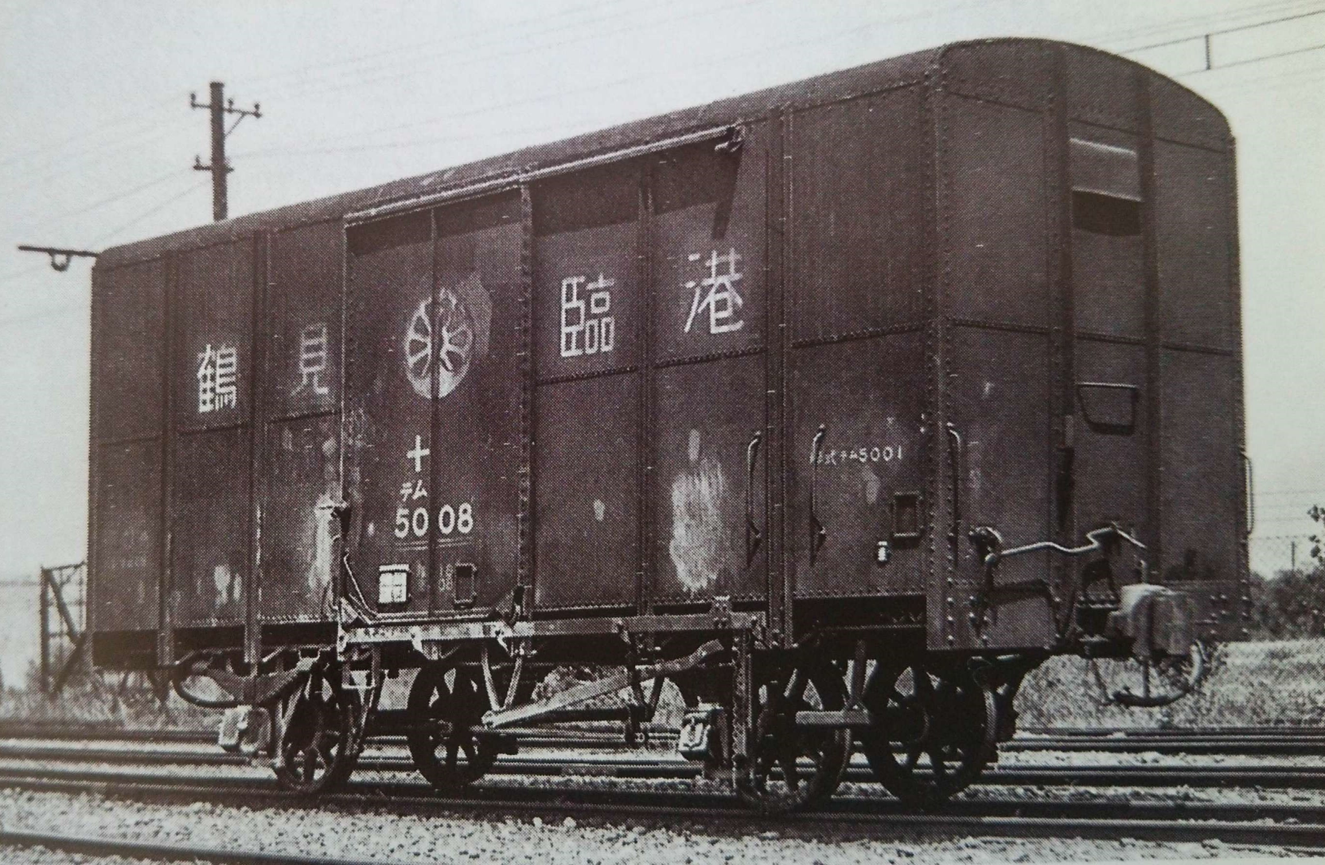 Tsurumi Rinko Railway TeMu 5001 wagon number TeMu 5008